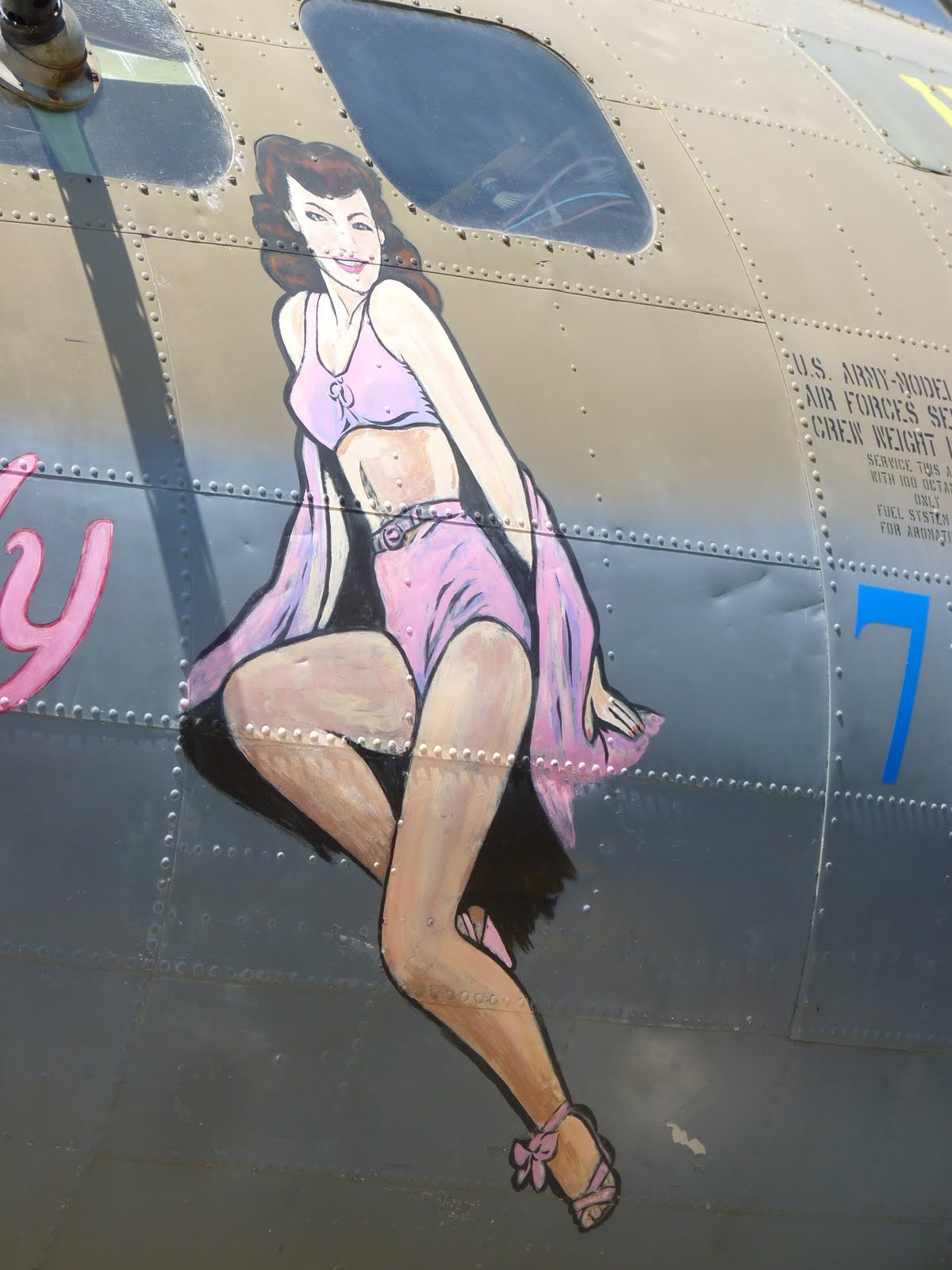 Close-up on Pink Lady's pin-up girl.